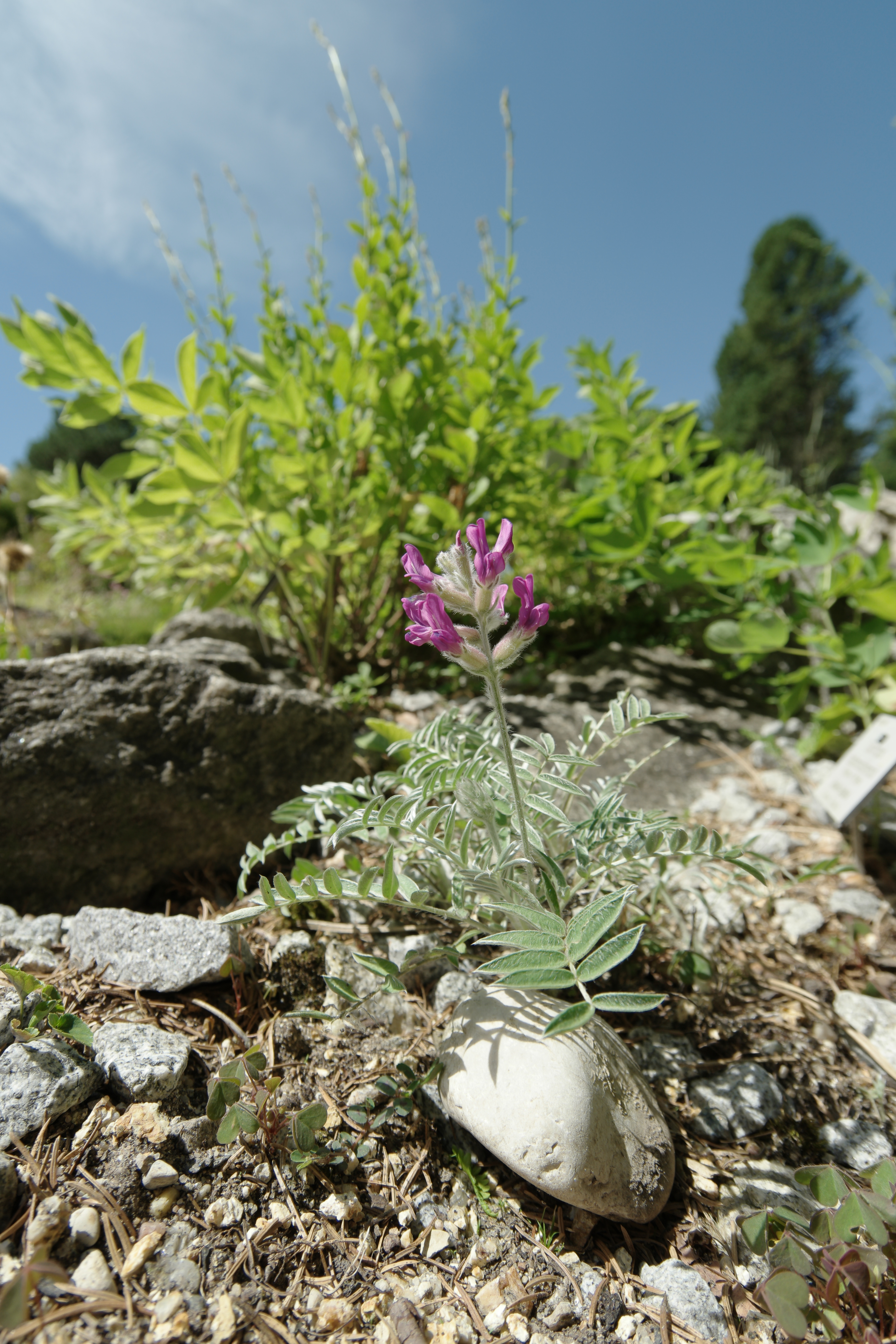 Oxytropis todomoshirensis